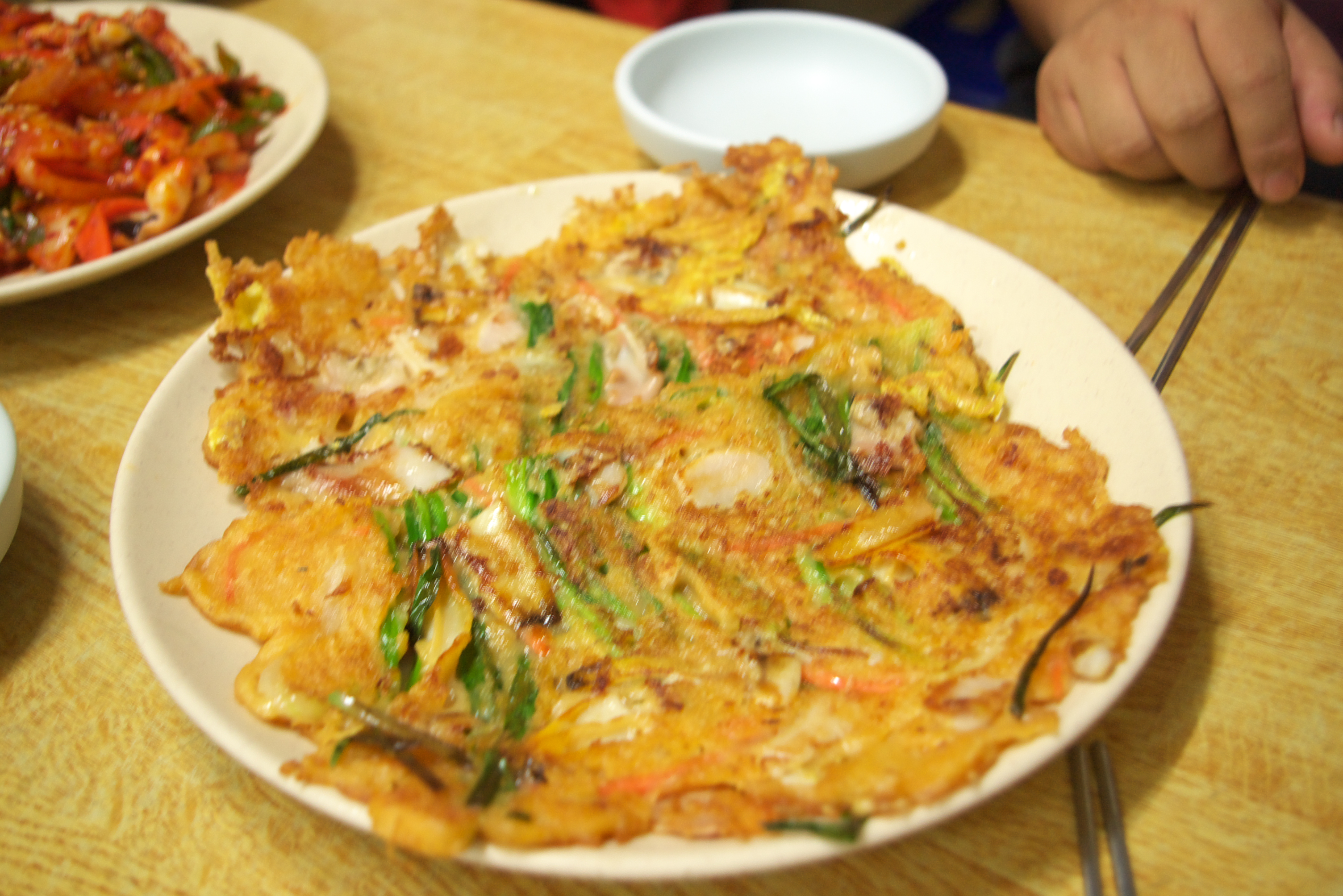 Pajeon, a pancake-like Korean dish made mostly of eggs and flour, with green onion